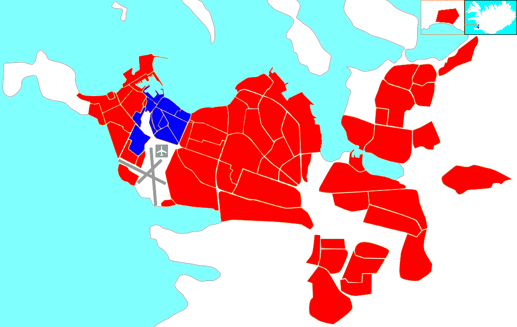 Locator map of the district Miðborg (blue) within the municipality of Reykjavik (red).